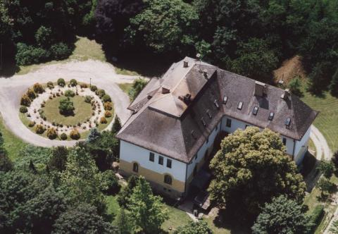 Kadarkút, Hungary, aerialphotograpghy (Somssich Mansion)